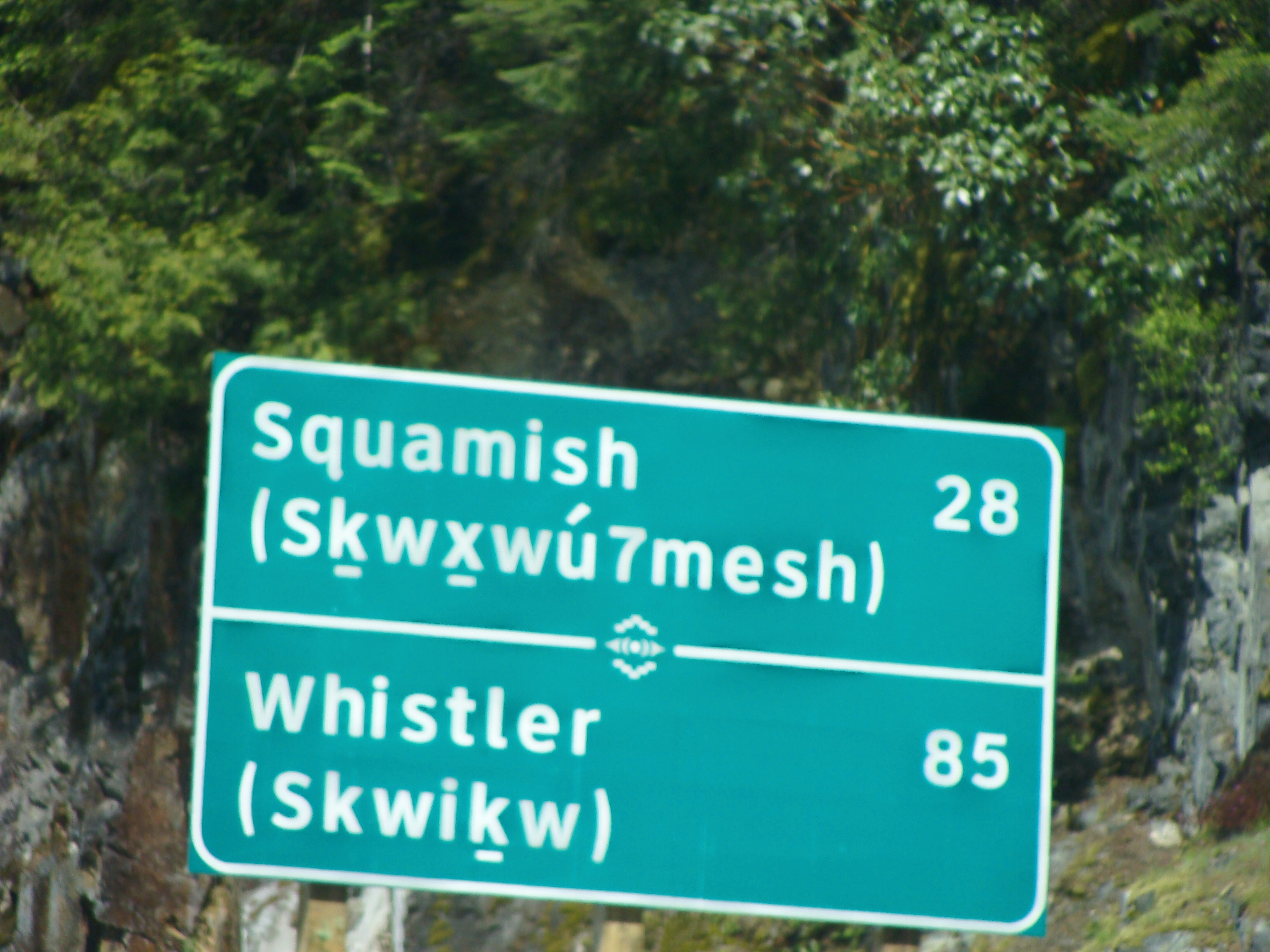 Photo of bilingual road sign in English and in Squamish, taken in British Columbia, Canada. Showing the use of 7 instead of ʔ in the Squamish language.